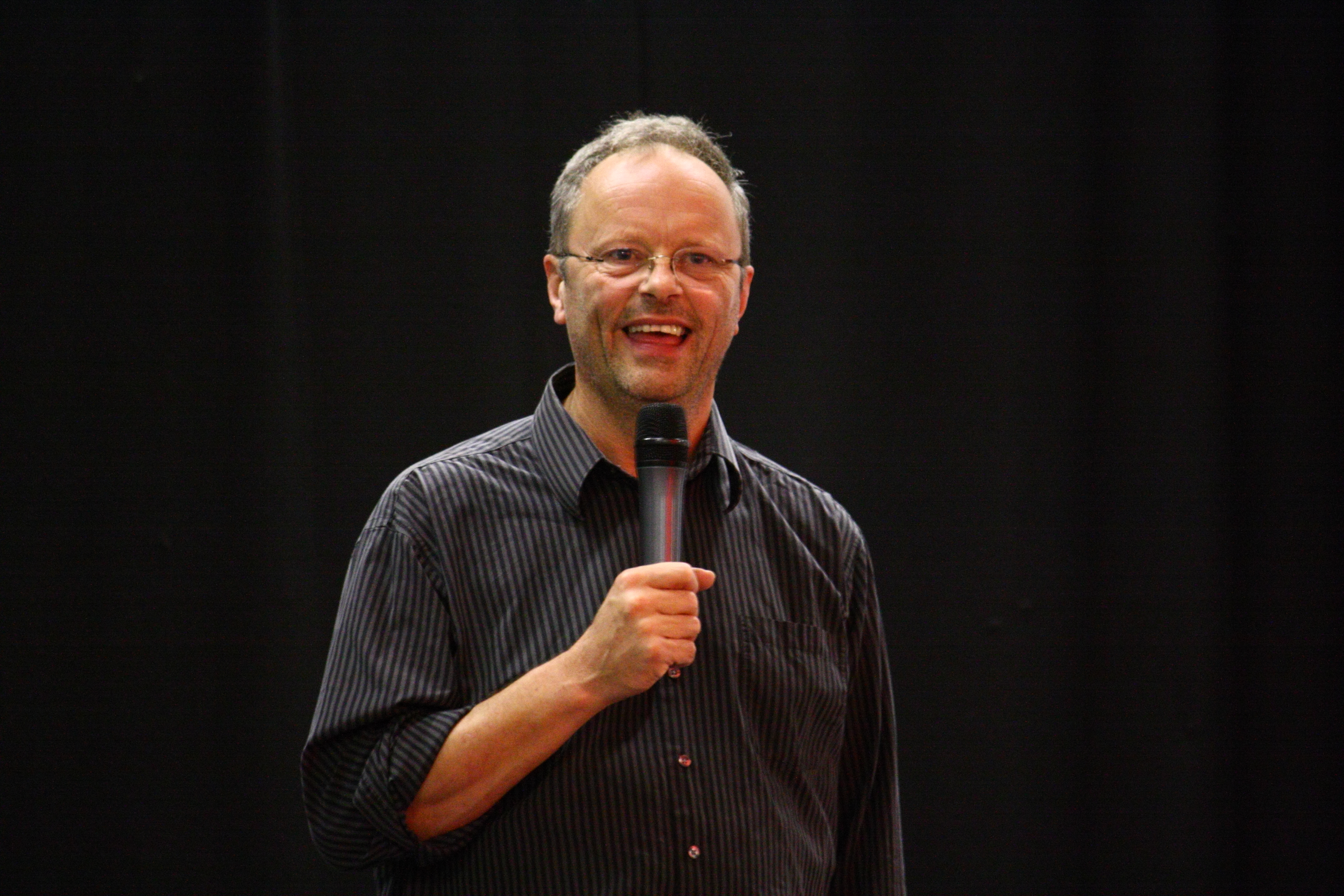 Robert Llewellyn aka Kryten from Red Dwarf at Dimension Jump XV, Birmingham UK